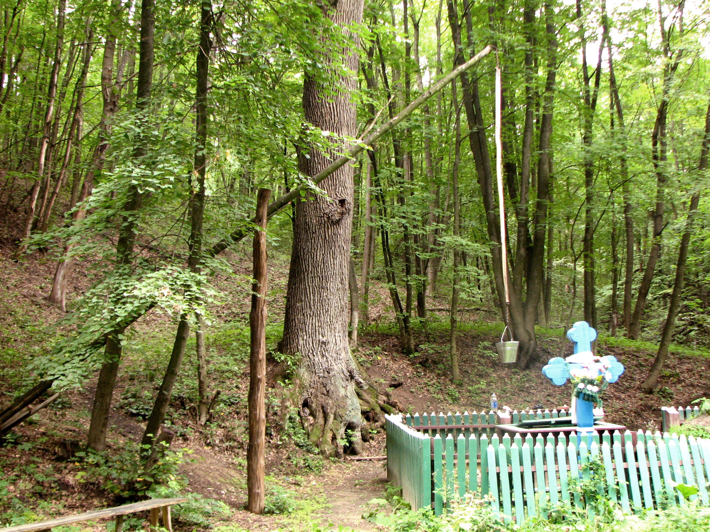 Gaydamatska_krinitsa in the Wood of Savran